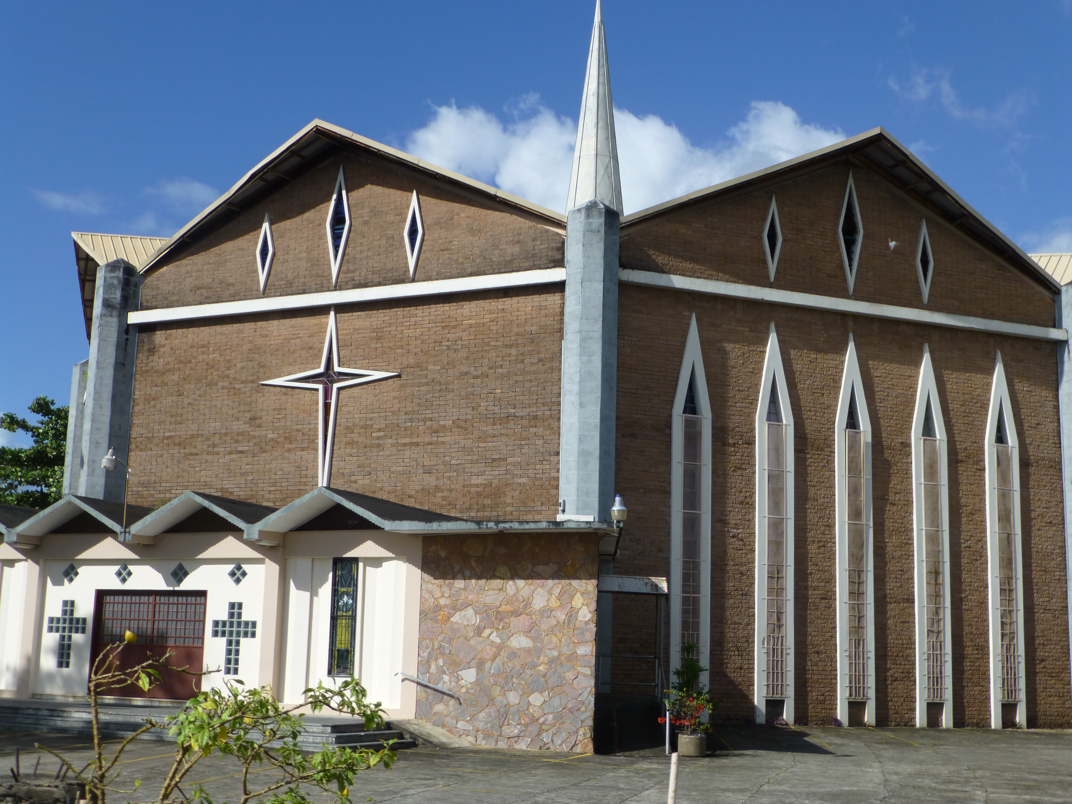 Barataria RC church, Barataria, San Juan, Trinidad.